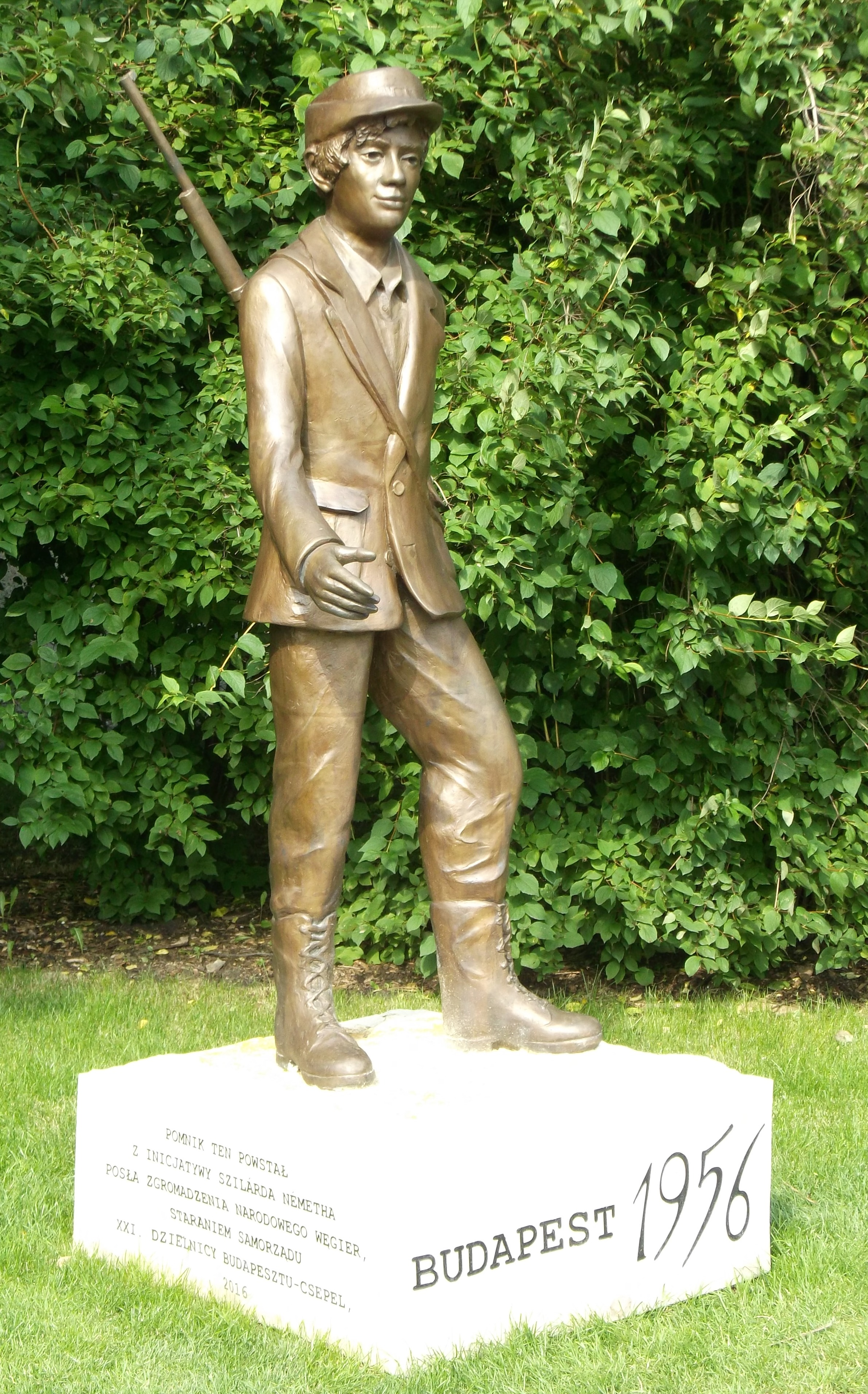 The monument 'Hungarian Boy' in Szczecin (Poland), commemorating the Hungarian Revolution of 1956, by Juha Richárd in 2016